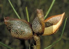 Seed pods